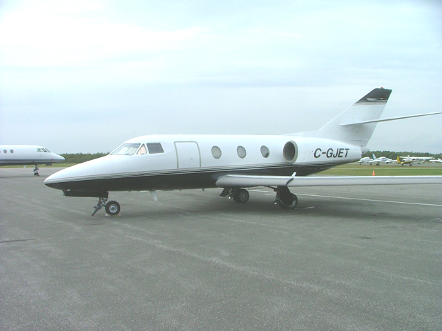 NovaJet DA-10